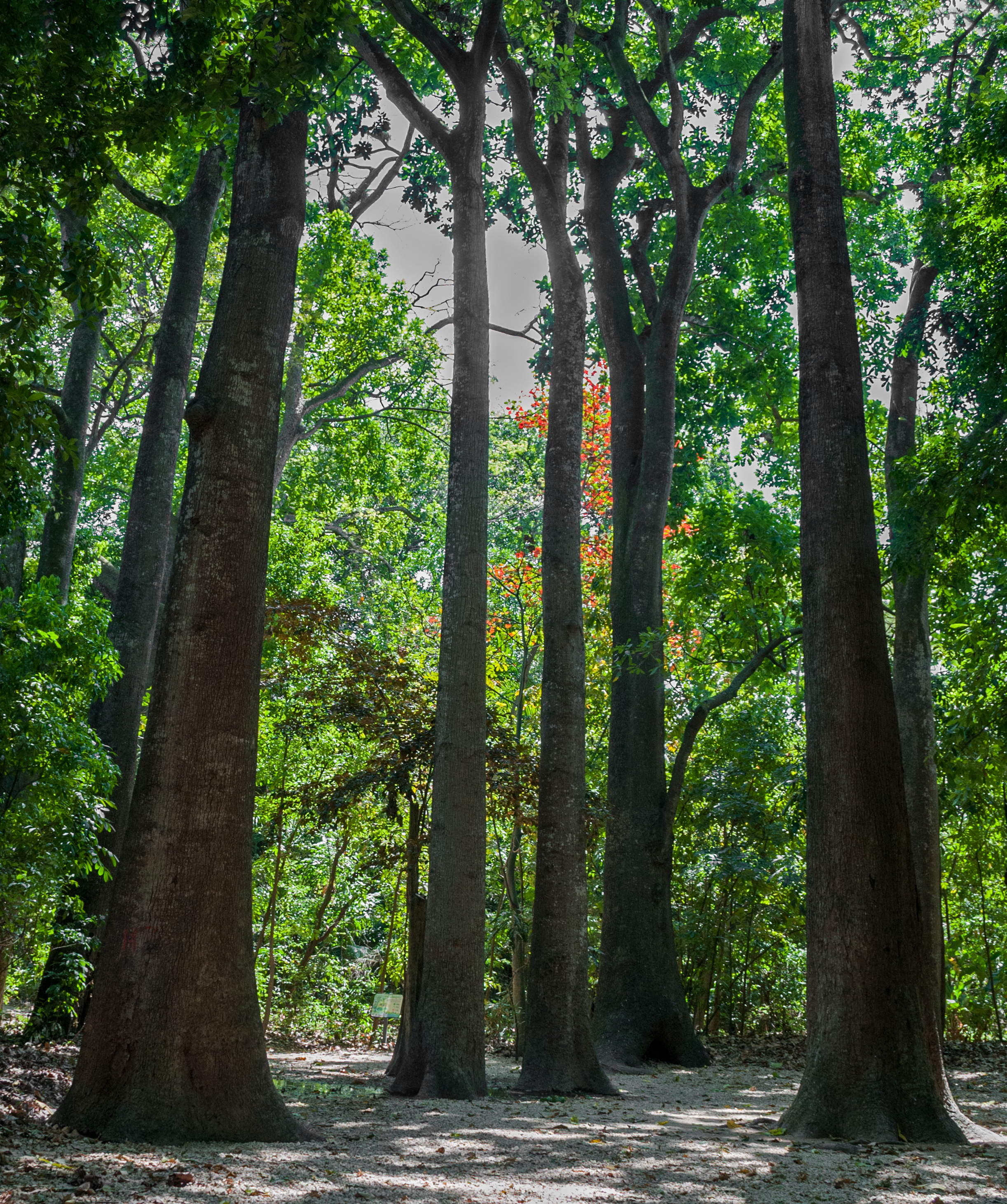 Fernando Peñalver Park Trees